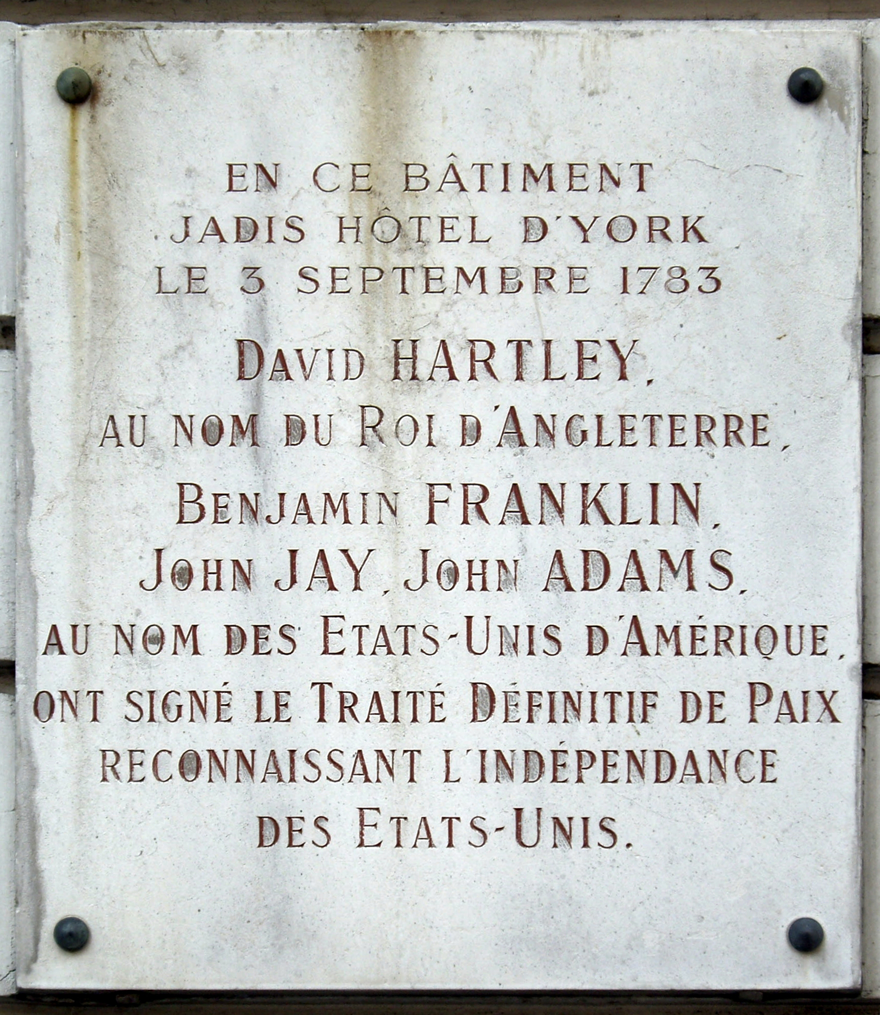 Commemorative plaque of the treaty of Paris, affixed on the building of rue Jacob (N° 56) where the treaty was signed. Text: In this building, once Hotel of York, on September 3, 1783, David Hartly, in the name of the King of England, Benjamin Franklin, John Jay, John Adams, in the name of the United States of America, signed the Definite Peace Treaty recognising the independence of the United States.